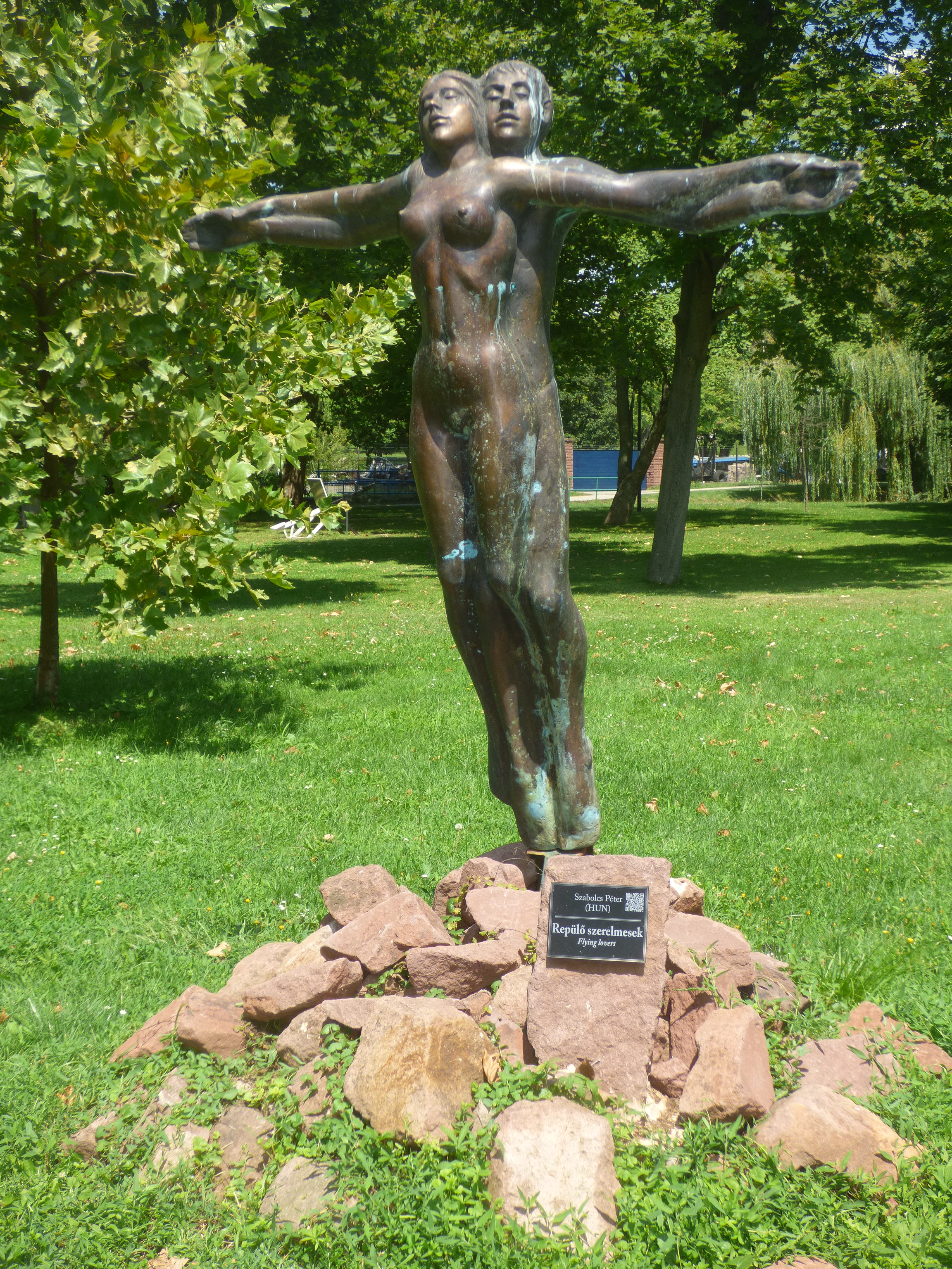 Szabolcs Péter Repülő szerelmesek című szobra a balatonalmádi szoborparkban